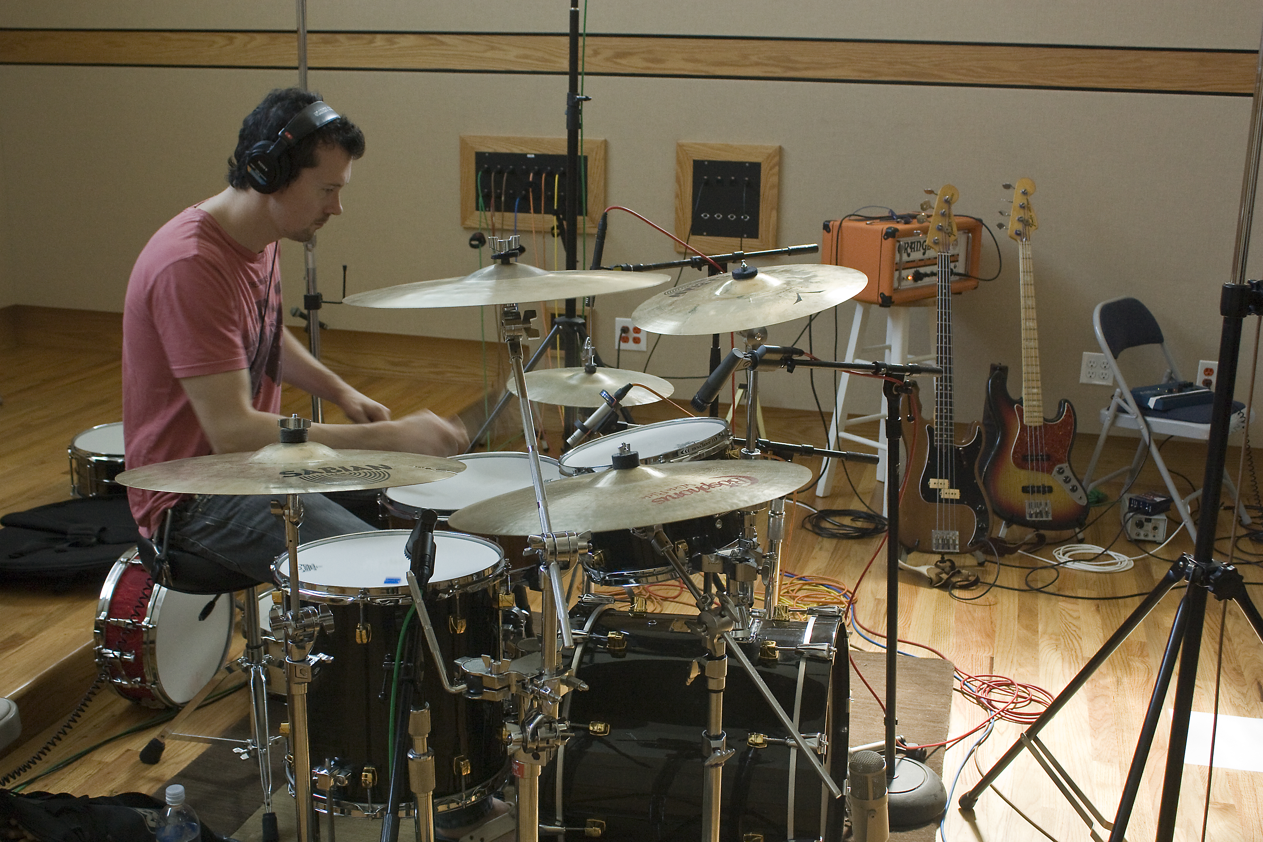 marlon 2 References Studio 1093, Athens, Georgia.